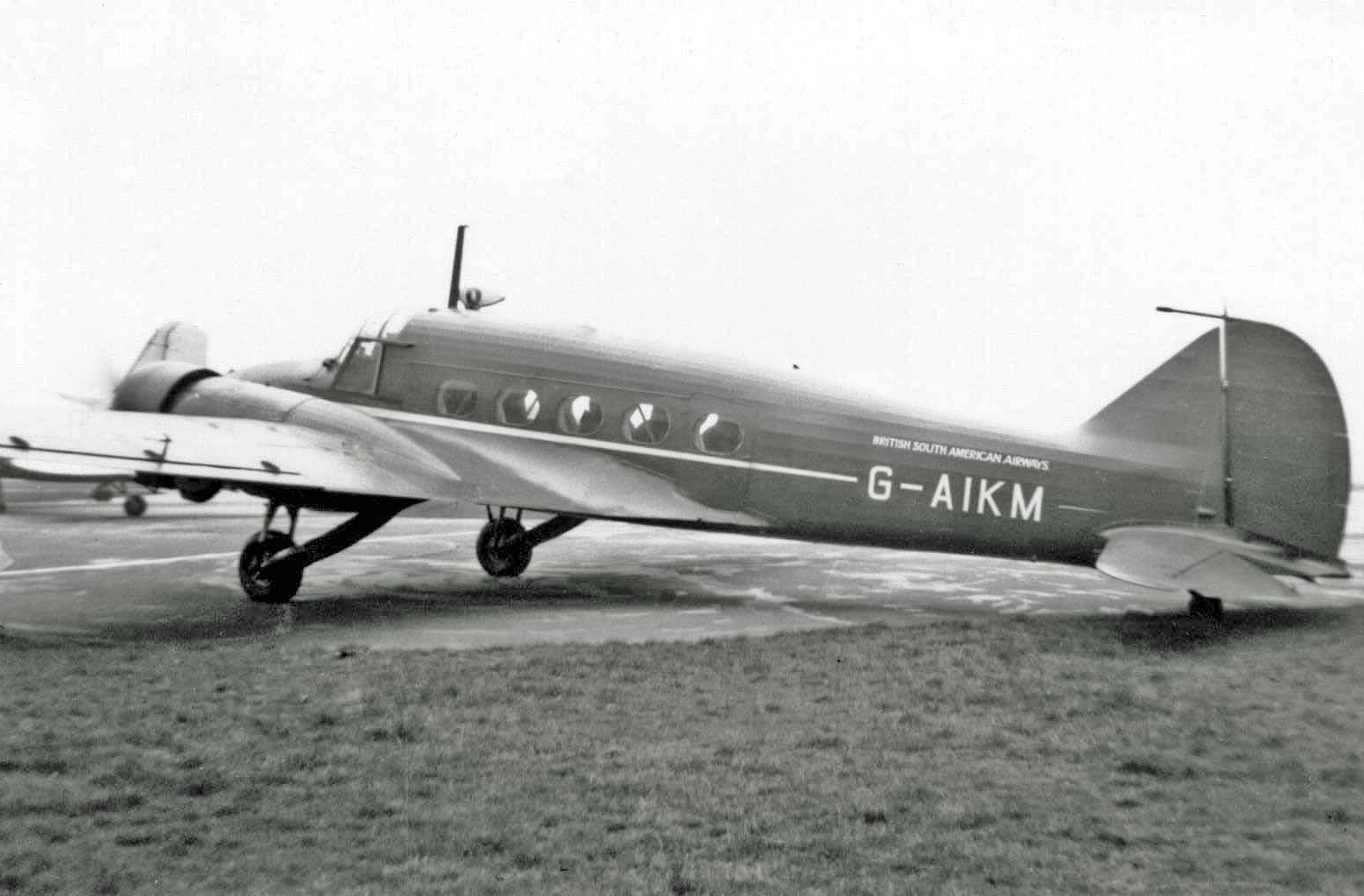 Avro XIX G-AIKM of British South American Airways at Manchester Airport